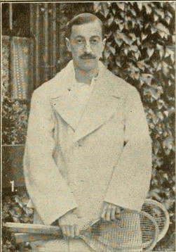 English tennis player Theodore "Mavro" Mavrogordato (1883–1941), in 1914.